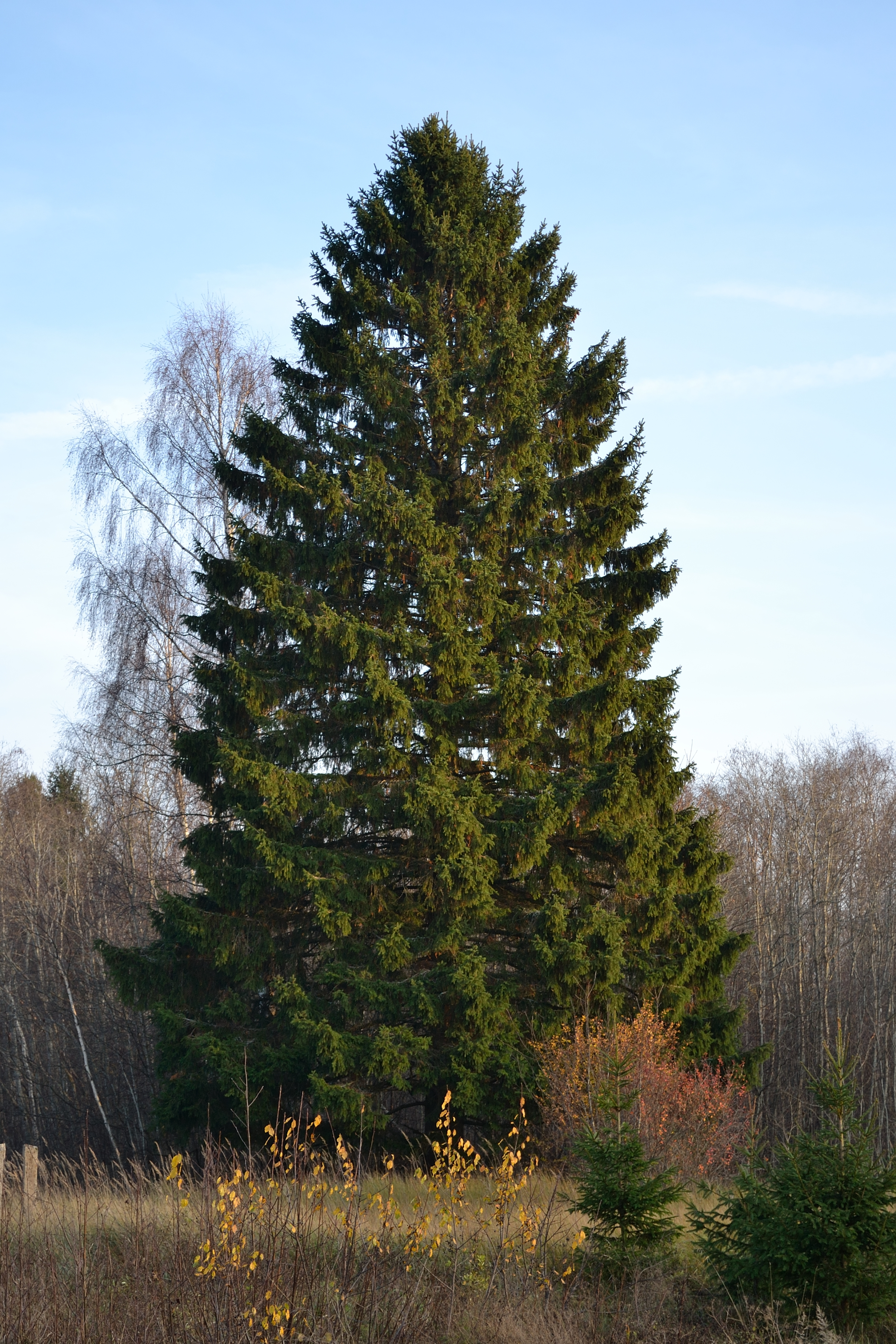 A Spruce (Picea abies) by Keila-Paldiski railway (Estonia)